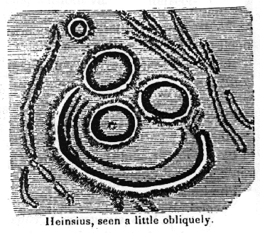 Sketch of the Heinsius craterDansk: Skitse af Heinsiuskrateret på Månen, udgivet 1846.